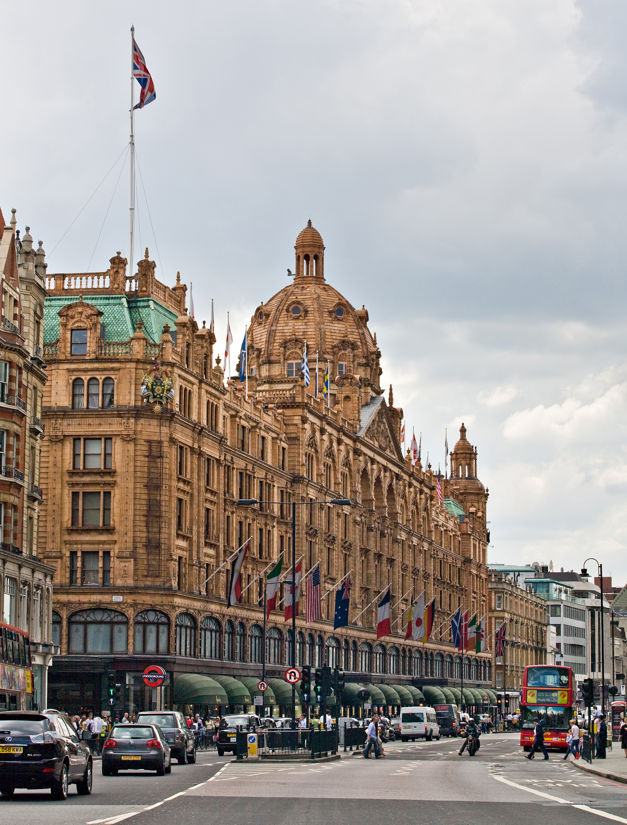 Harrods Department Store as viewed from the north-east along Brompton Road, in London, England.